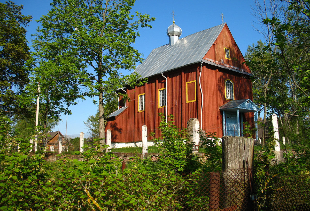 Orthodox church of the Holy Trinity in Liavonpaĺ